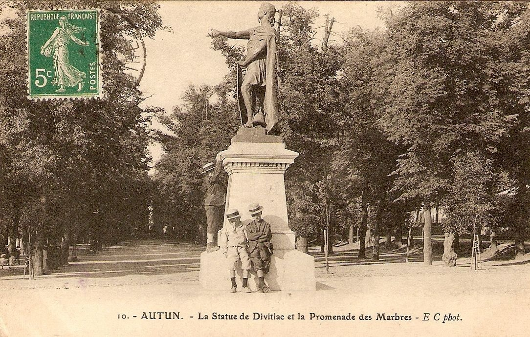 Statue of Diviciacos in Autun, France. This statue was built in 1893 by Arthur de Gravillon (Arthur Péricaud) and destroyed in 1942.